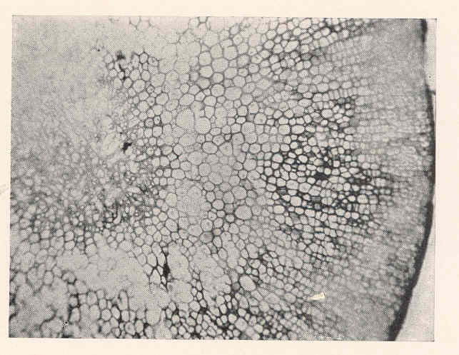 Photomicrograph of stipe of Renfrewia Subject: Algae, Renfrewia Tag: Aquatic Botany